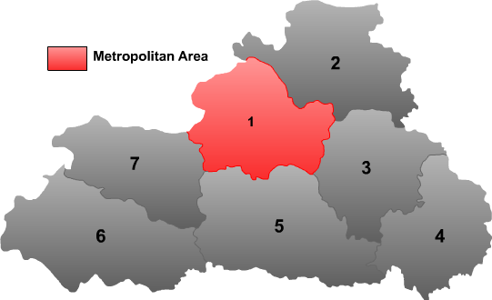 Map of Shangluo in Shaanxi province.